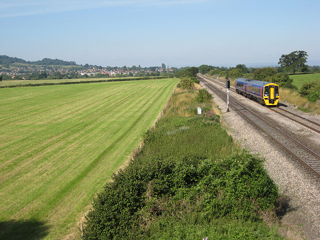 Travelling from Gloucester to Cheltenham The train is about to pass under the bridge north of Reddings Farm. Lower slopes of Tinker's Hill can just be seen on the left behind the houses in Churchdown.